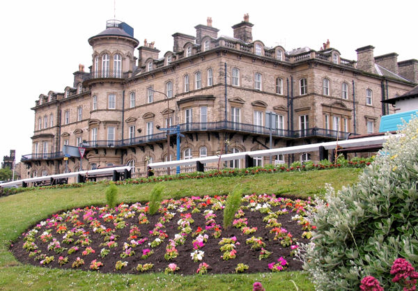 Former Zetland Hotel - now apartments Built by the Stockton and Darlington Railway Company and opened 27 July 1864 this was one of the first railway hotels. It had its own covered railway platform at the rear entrance, and a stable block. To make the most of the fine views the round tower was set up as a 'telescope' room.